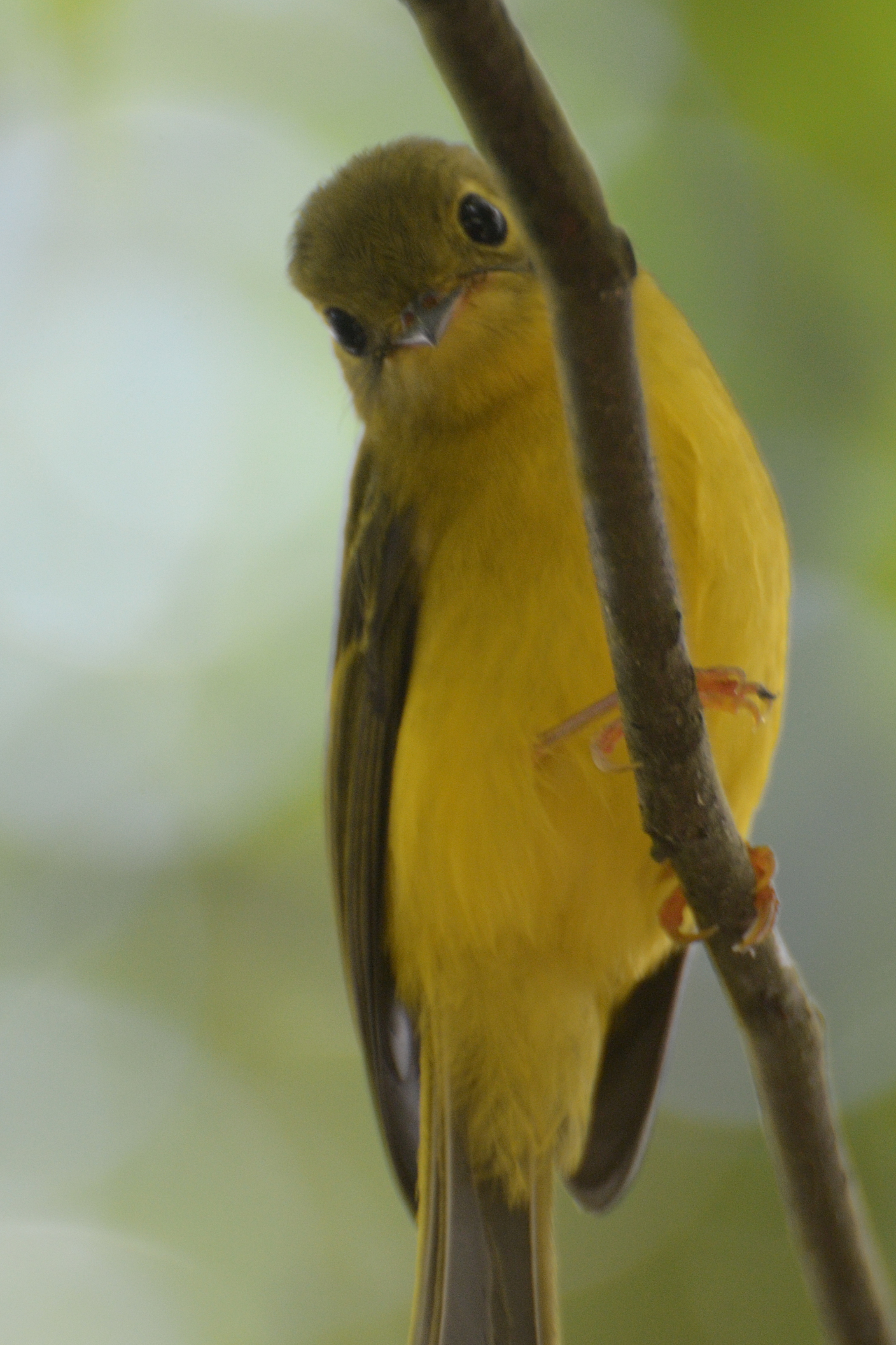 Citrine canary-flycatcher (Culicicapa helianthea) at Mount Mahawu, North Sulawesi